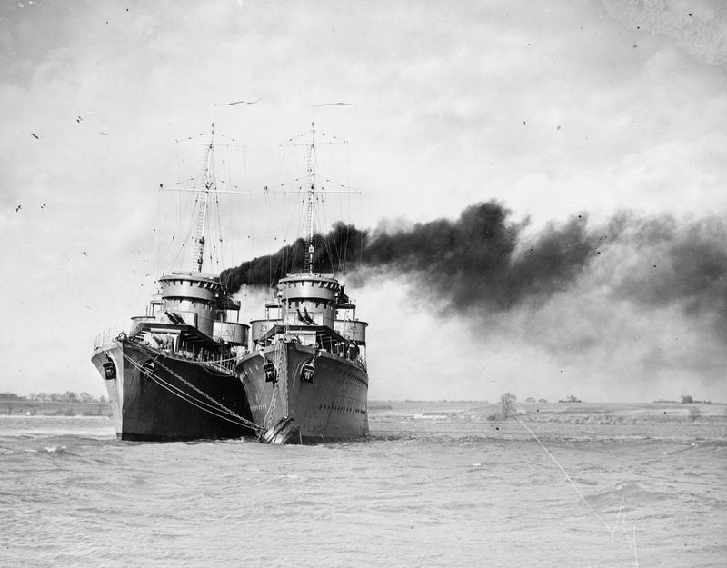 The Polish Navy during the Second World War The two Polish destroyers, ORP Grom (Thunder) and ORP Błyskawica (Lightning) seen after Operation 'Pekin', the evacuation of units of the Polish Navy to British home waters in September 1939. The destroyers are moored side by side at a buoy.